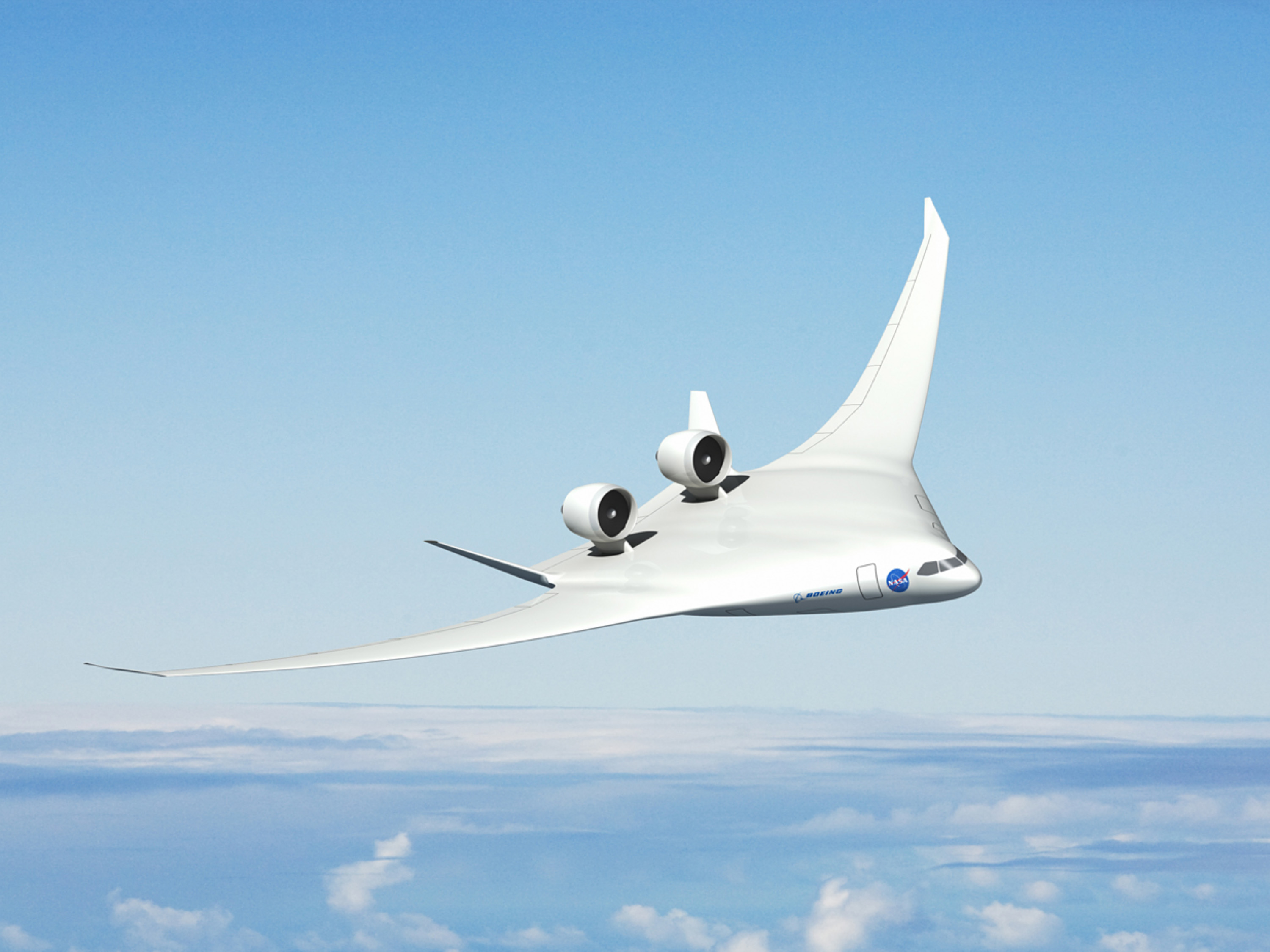 Boeing's advanced vehicle concept centers around the familiar blended wing body design like the X-48. What makes this design different is the placement of its Pratt & Whitney geared turbofan engines on the top of the plane's back end, flanked by two vertical tails to shield people on the ground from engine noise. The design also uses other technologies to reduce noise and drag, and long-span wings to improve fuel efficiency. This design is among those presented to NASA at the end of 2011 by companies that conducted NASA-funded studies into aircraft that could enter service in 2025.